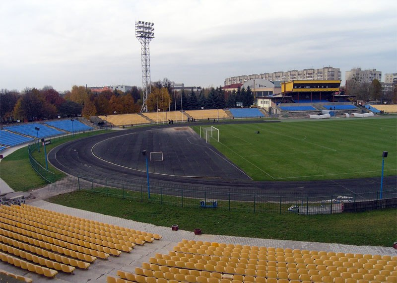 Avangard Stadium, Lutsk